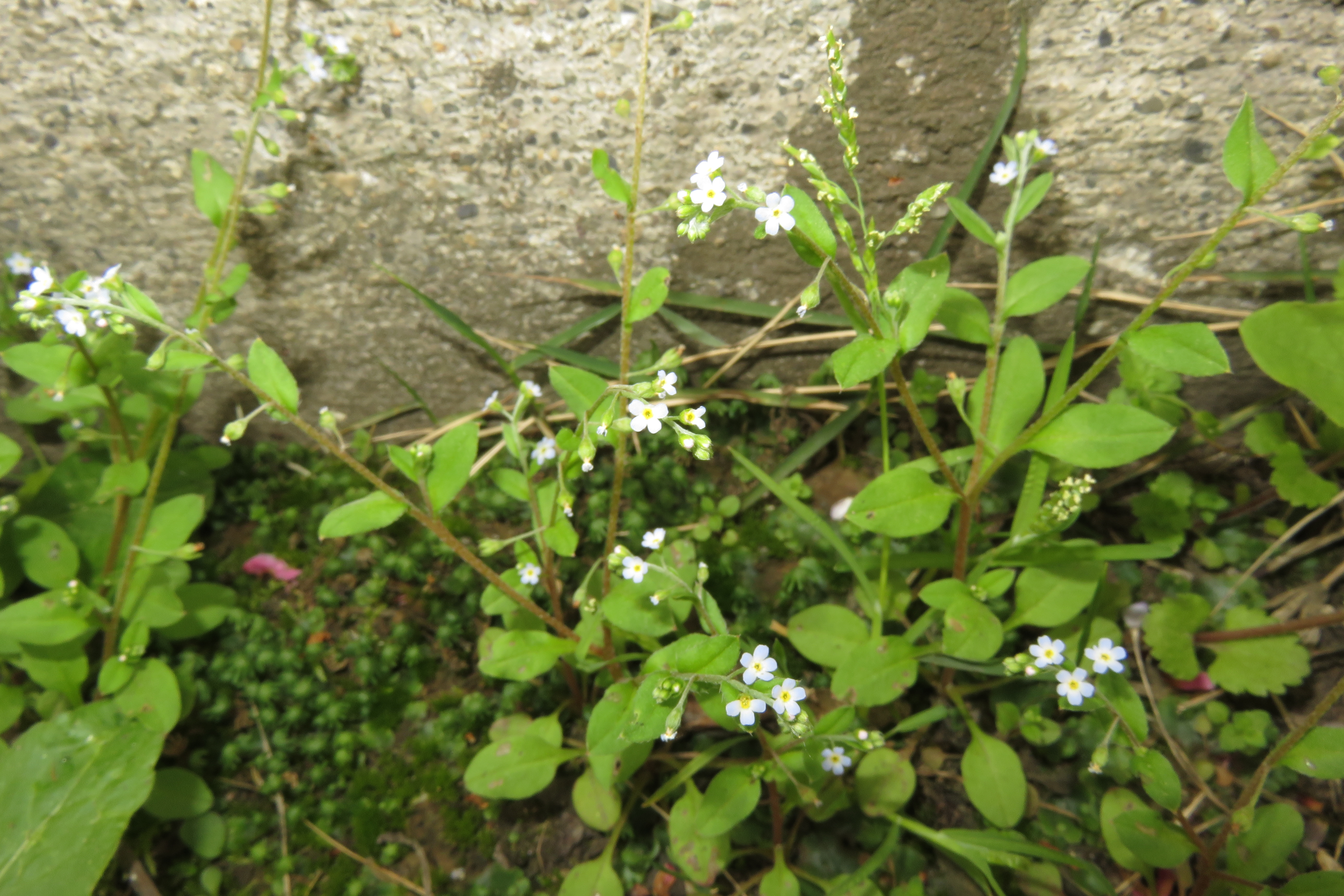 Trigonotis peduncularis, Aizu area, Fukushima pref., Japan